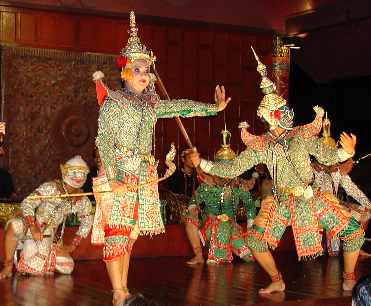 Characters from the Ramayana dance in traditional costume at the royal Orchid Hotel in Bangkok, 2004.